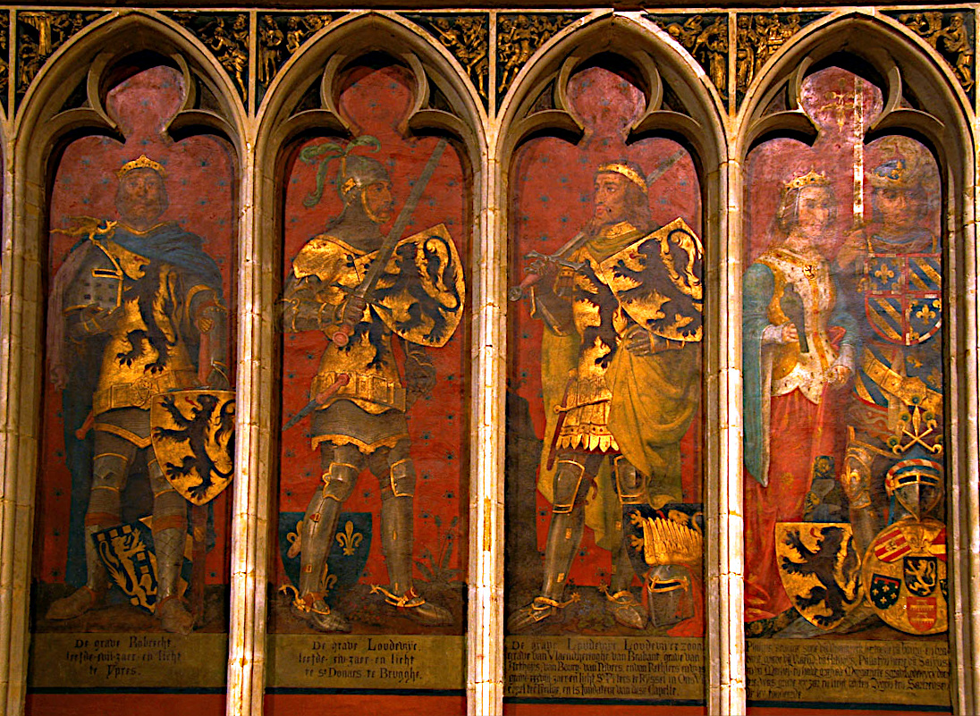 Wall paintings of the Counts of Flanders. Left to right: Robrecht III, Lodewijk I, Lodewijk II, Margaretha III + Filips I Location: Count's Chapel, Kortrijk